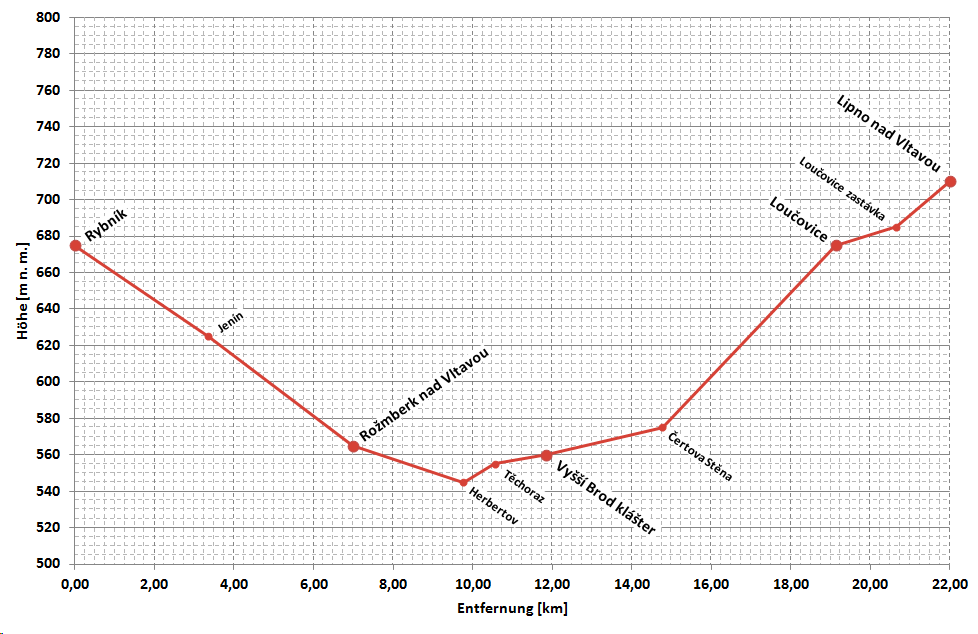 simplified altitude-profile of railway track Rybník–Lipno nad Vltavou